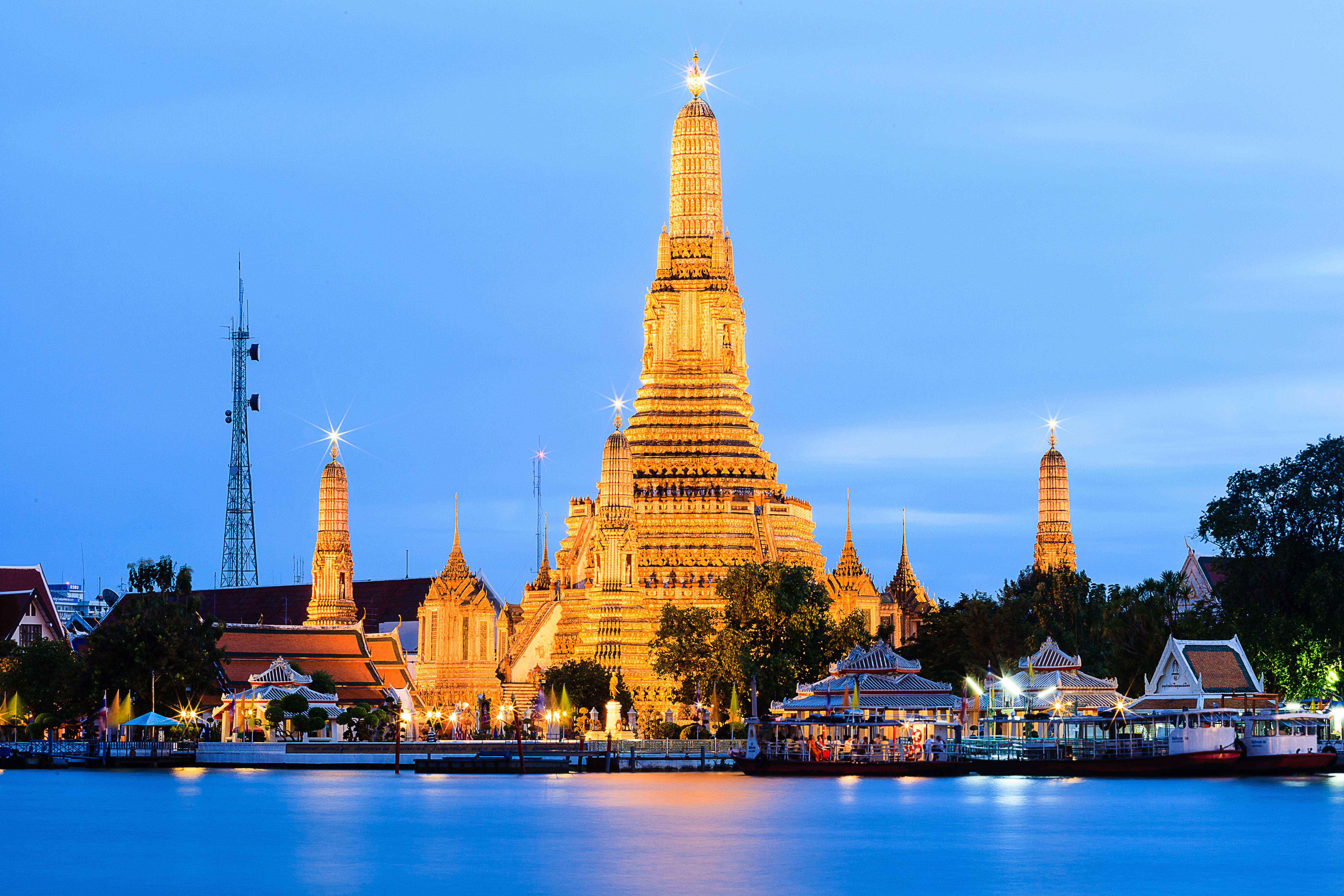 The Pagoda of Wat Arun Ratchawararam (วัดอรุณราชวราราม, "Royal Temple of Dawn"), Bangkok Yai District, Bangkok.